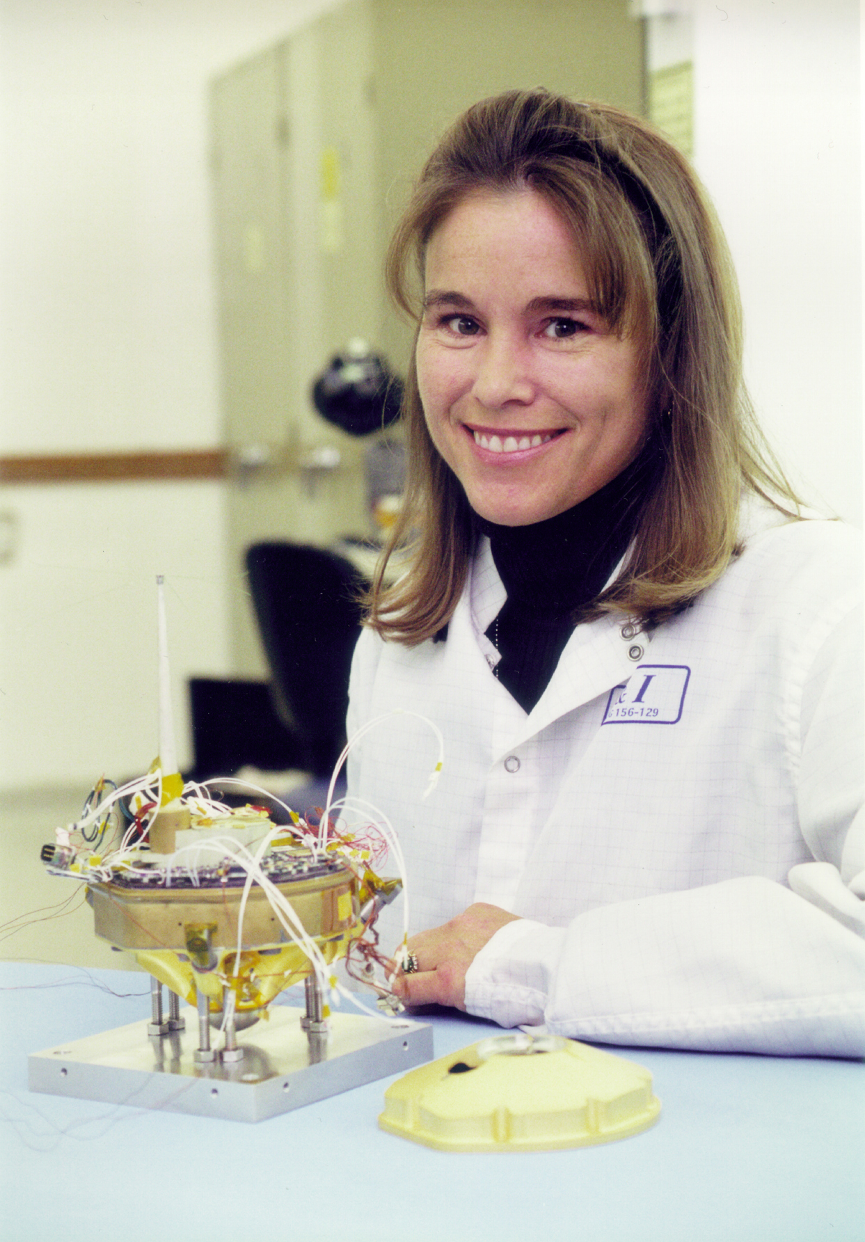 Deep Space 2 project manager, Sarah Gavit, during final testing of the probes' electronics, before the cover of the aftbody is sewn up.